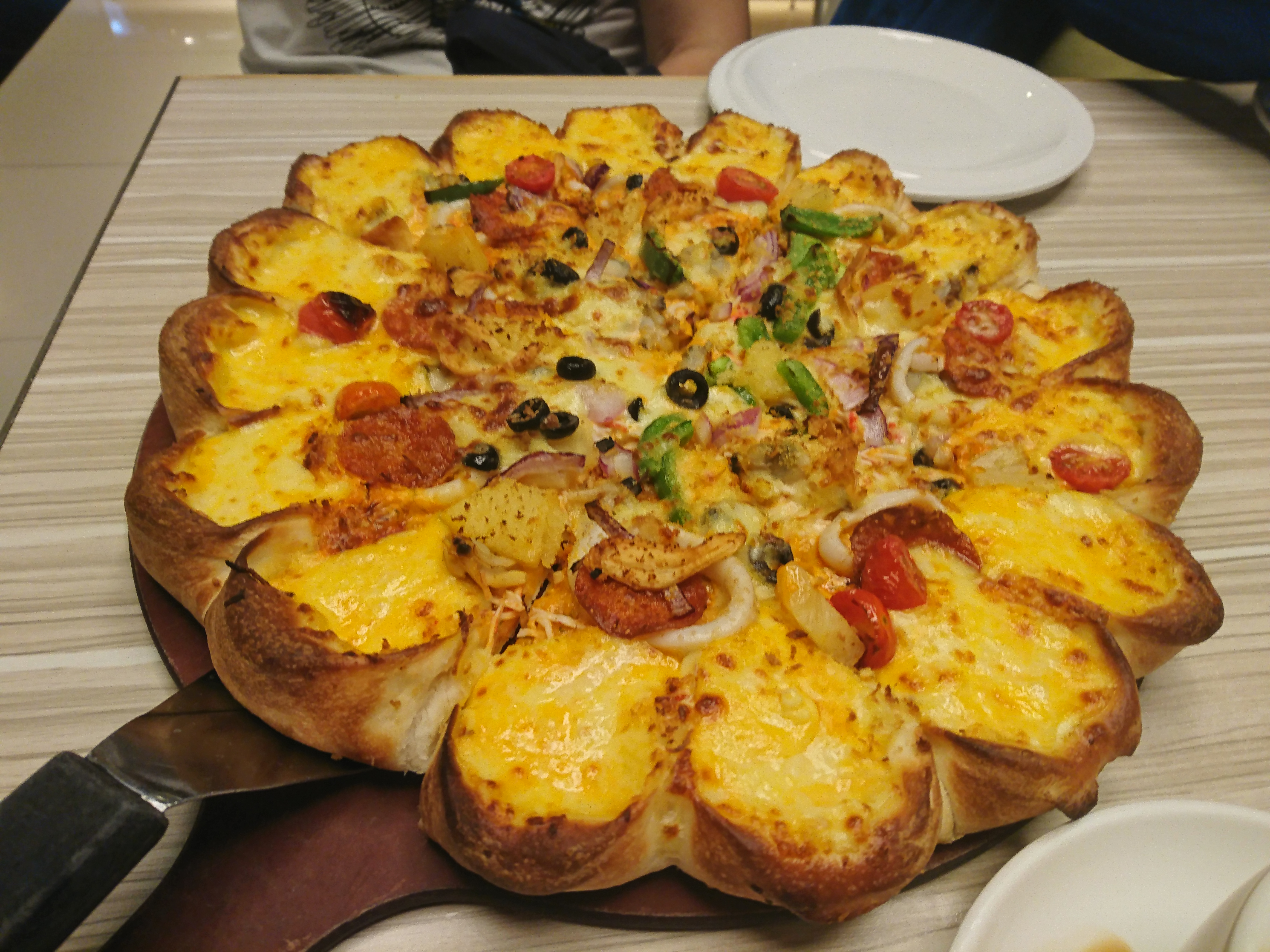 Pizza is have cheese with seafood